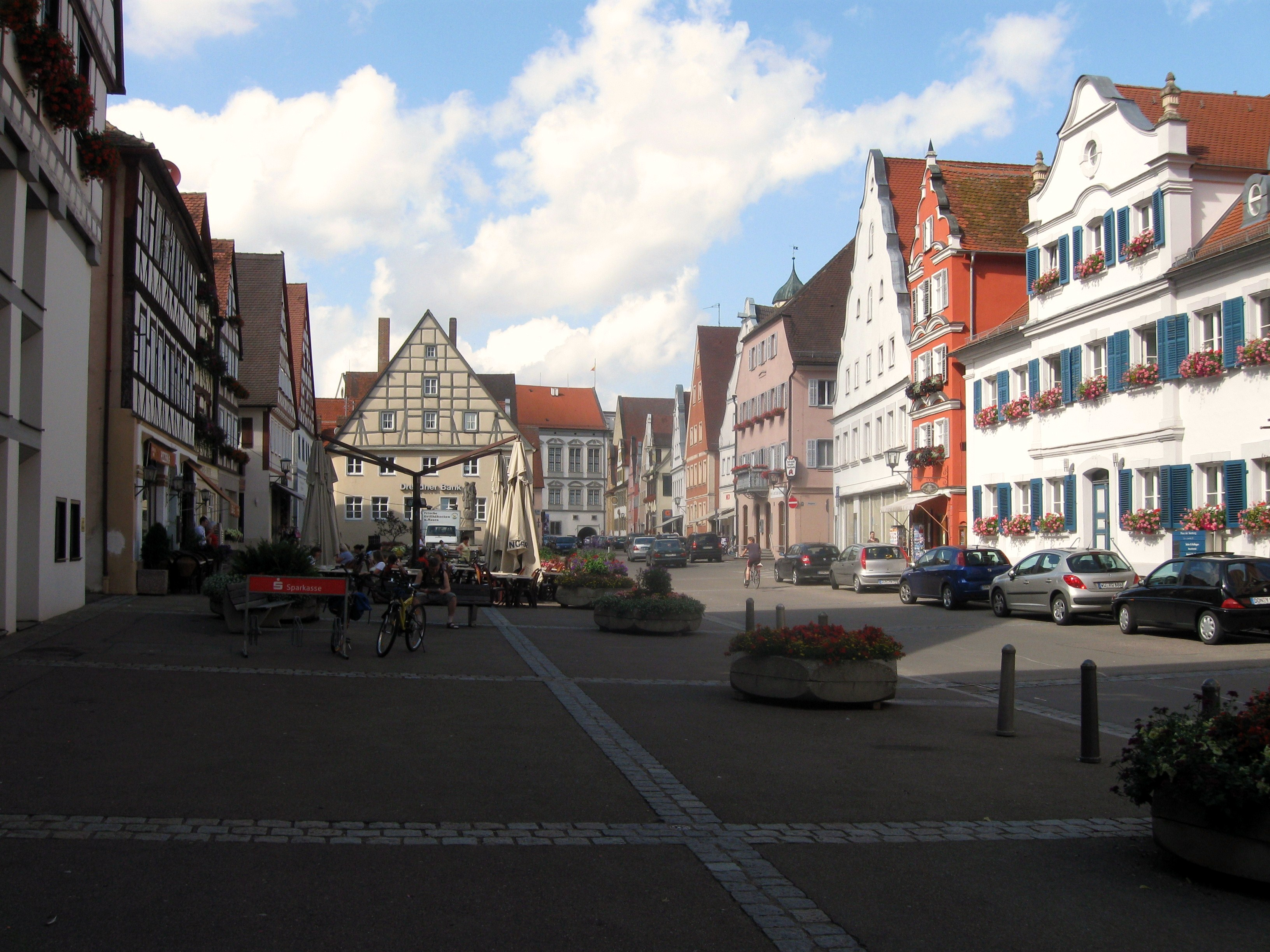 Photo of the central market plaza (markplatz) in the center of Oettingen in Bayern, Germany taken during July 2009.